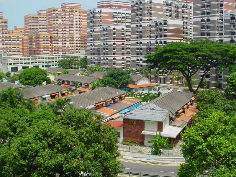 Toa Payoh flats. 2002.